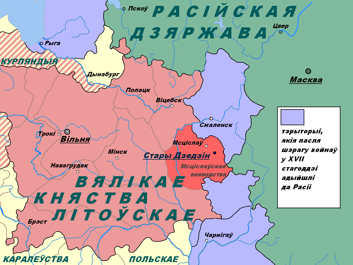 This image shows the location of the village Stary Dzedzin on the political map of the 17th century.